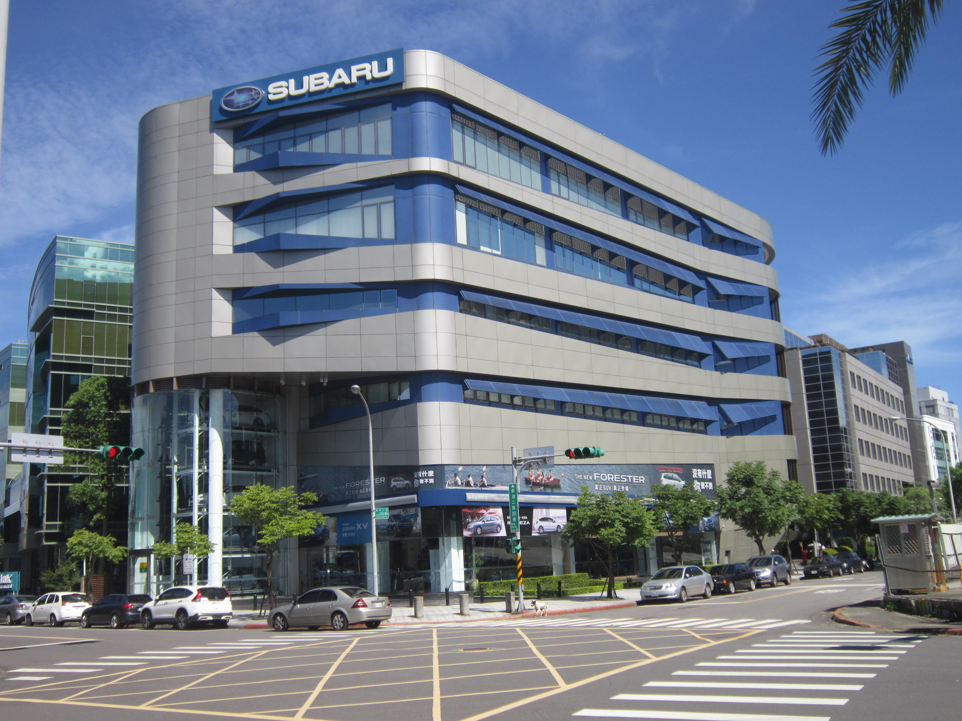 Taiwan Motor Image Co., Ltd. headquarters.